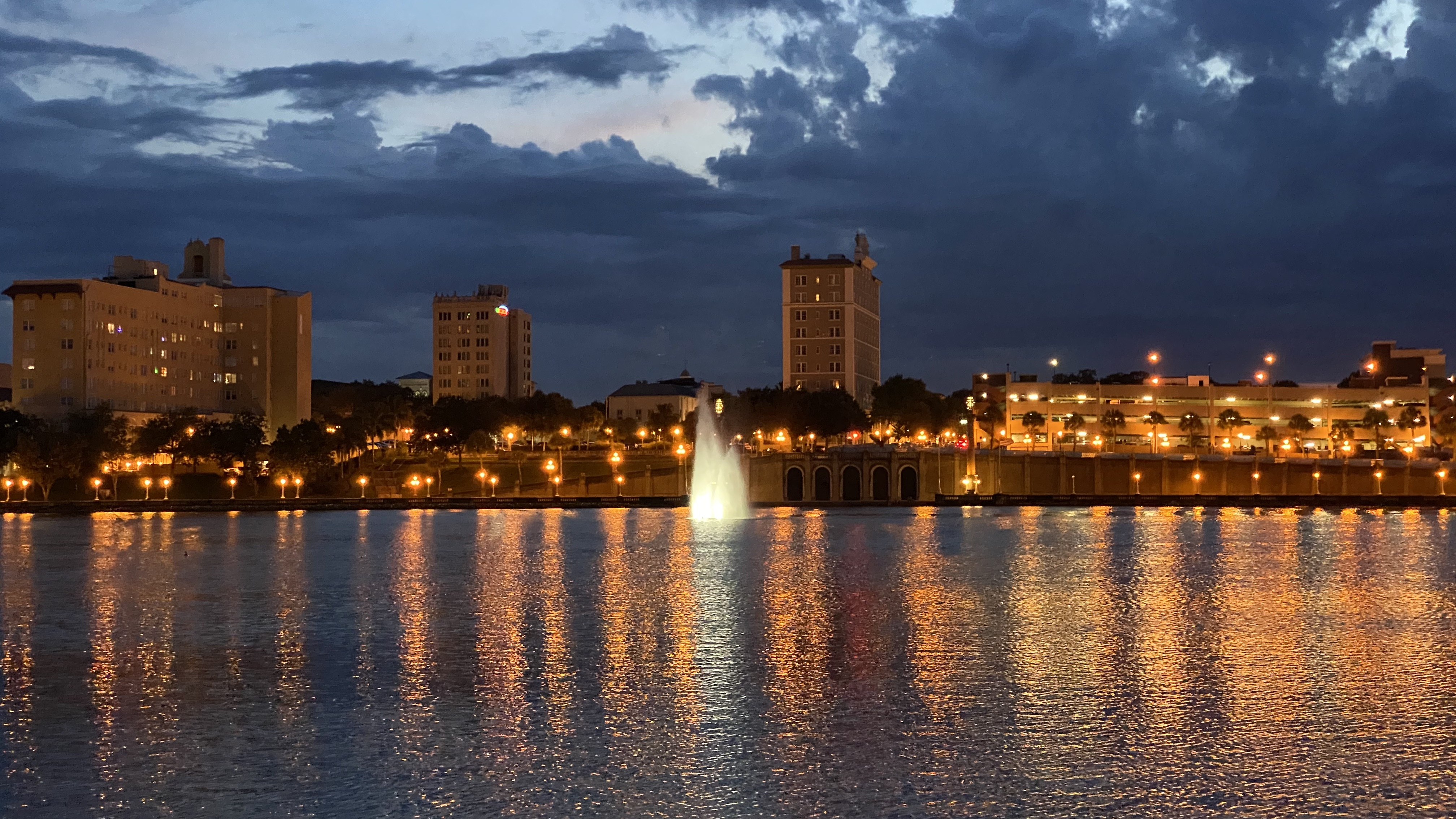 Scenic view of Lake Mirror in downtown Lakeland